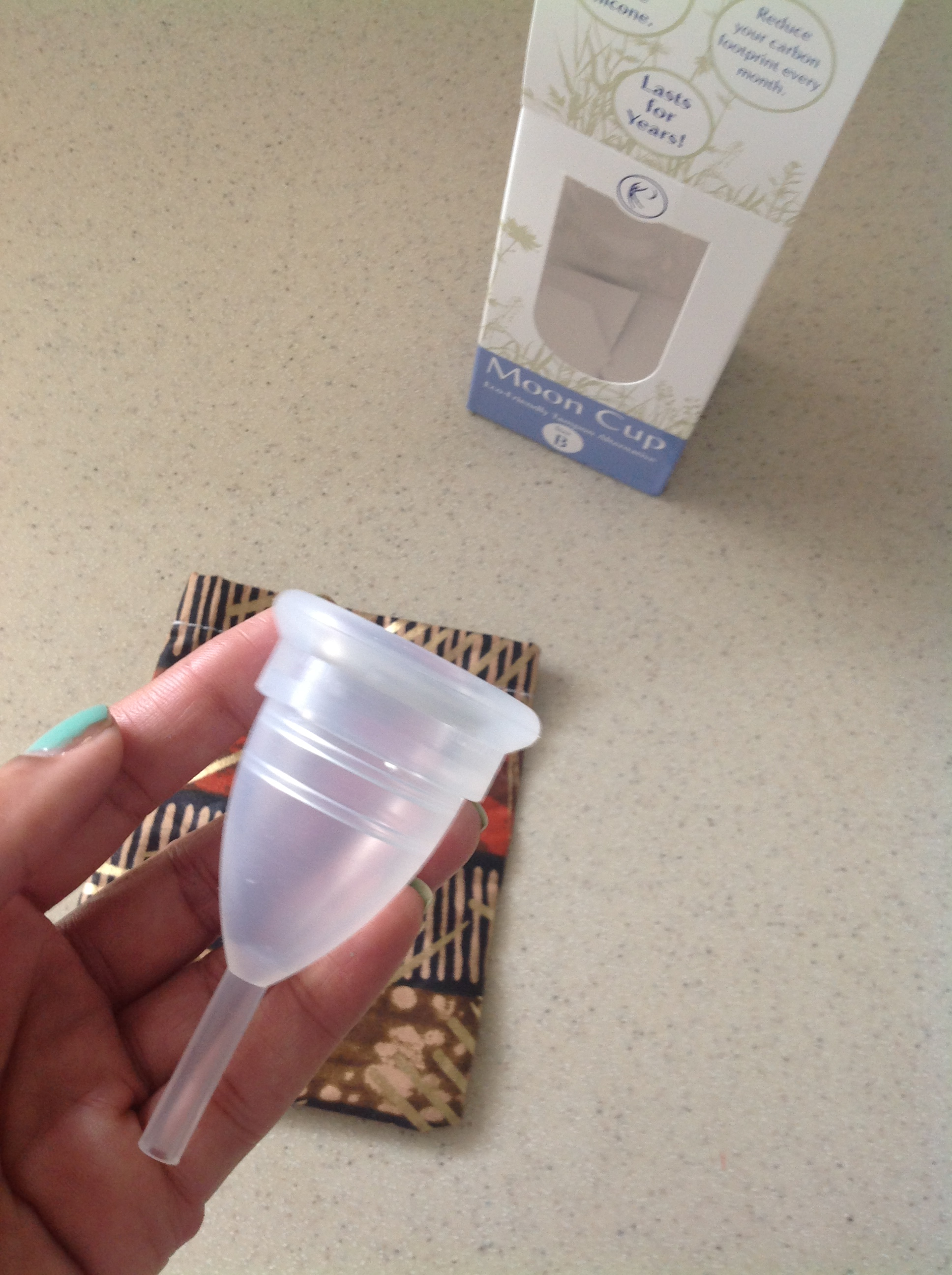 Moon cup in hand